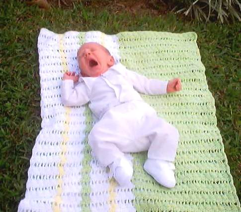 Yawning baby on a lawn, Caudimare, Caracas.